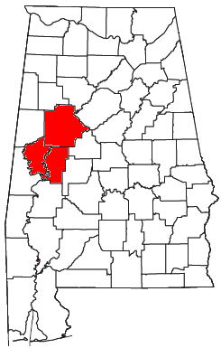 Locator map of the Tuscaloosa Metropolitan Statistical Area in the northwestern part of the U.S. state of Alabama.